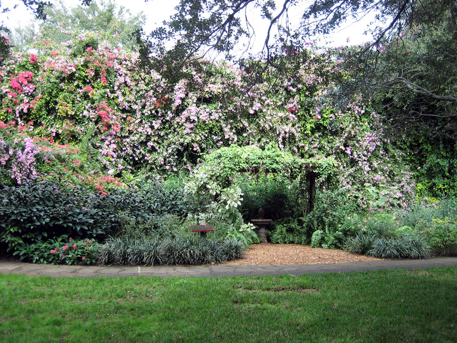 Butterfly Garden